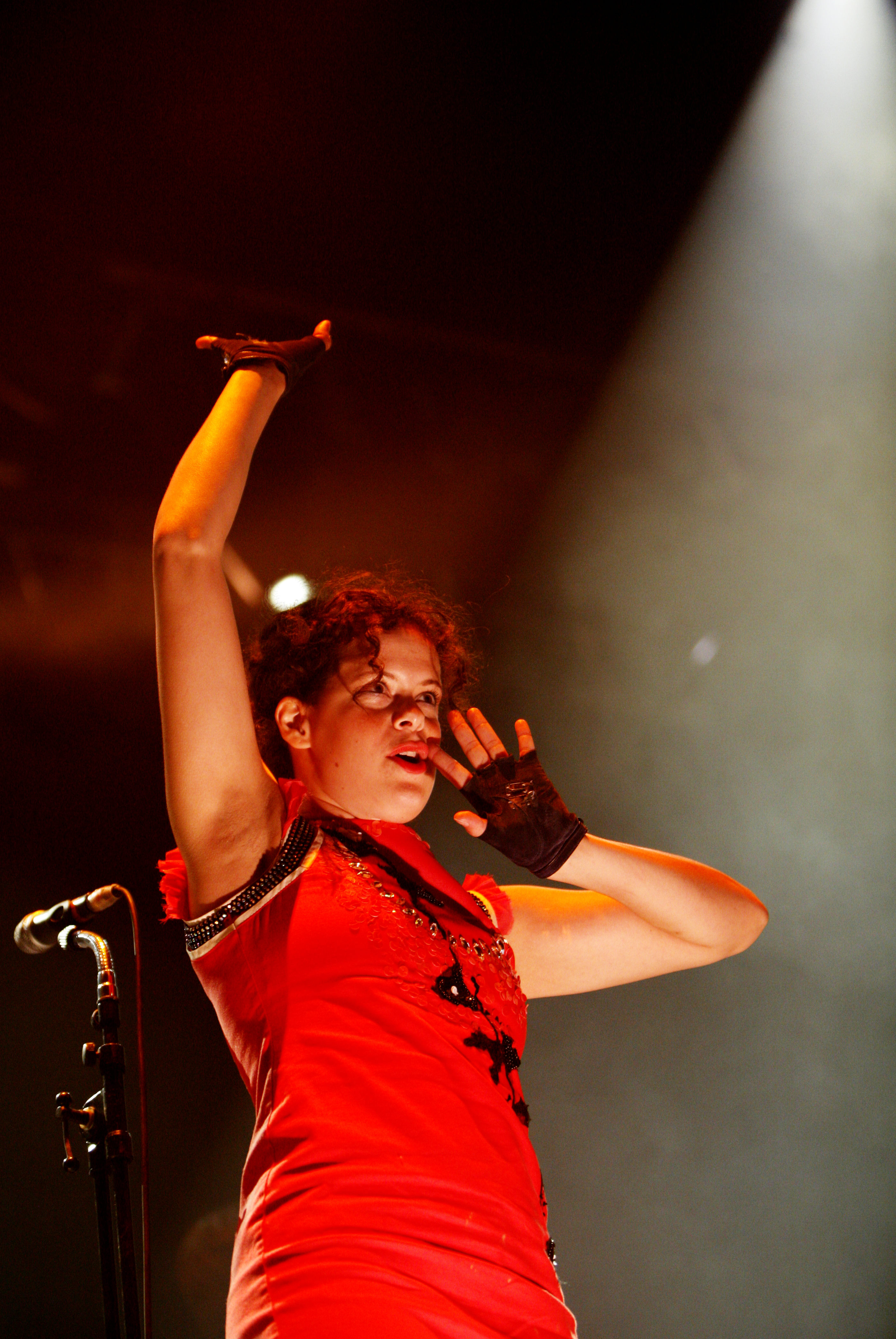 Arcade Fire at the Eurockéennes of 2007